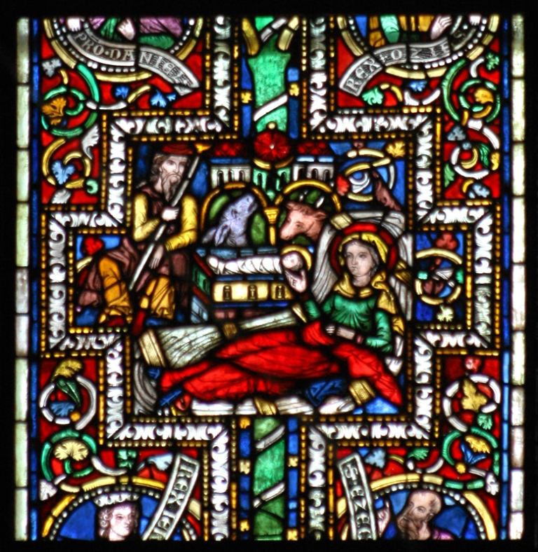 Cologne Cathedral, Germany. Detail of gothic stained glass window in chevet, elder "Bibelfenster", created around 1260.